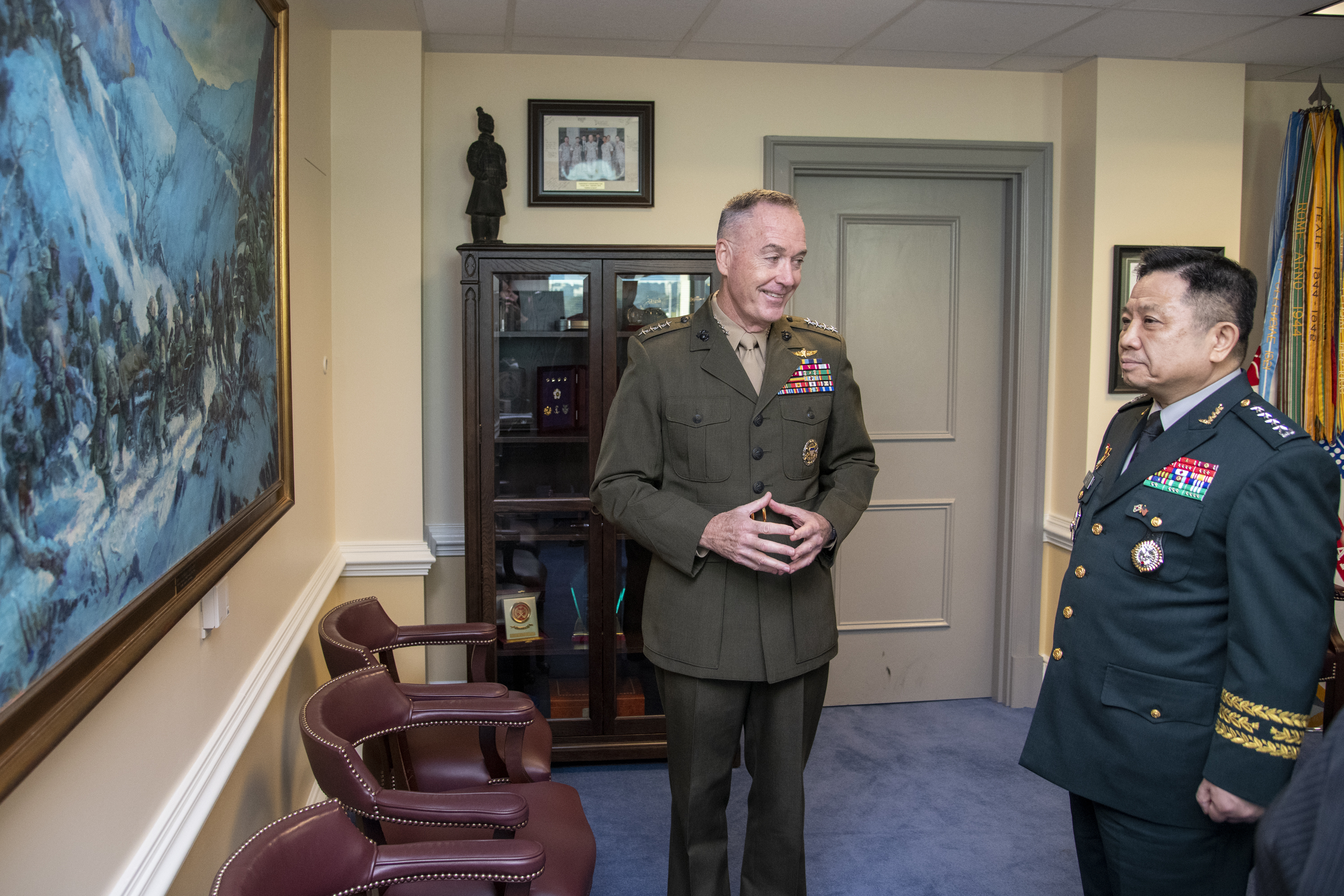 Marine Corps Gen. Joe Dunford, chairman of the Joint Chiefs of Staff, hosts his counterpart, Chairman of the Republic of Korea Joint Chiefs of Staff Gen. Park Han-Ki, for the 43rd Military Committee Meeting at the Pentagon, Oct. 25, 2018. (DoD Photo by Navy Petty Officer 1st Class Dominique A. Pineiro)